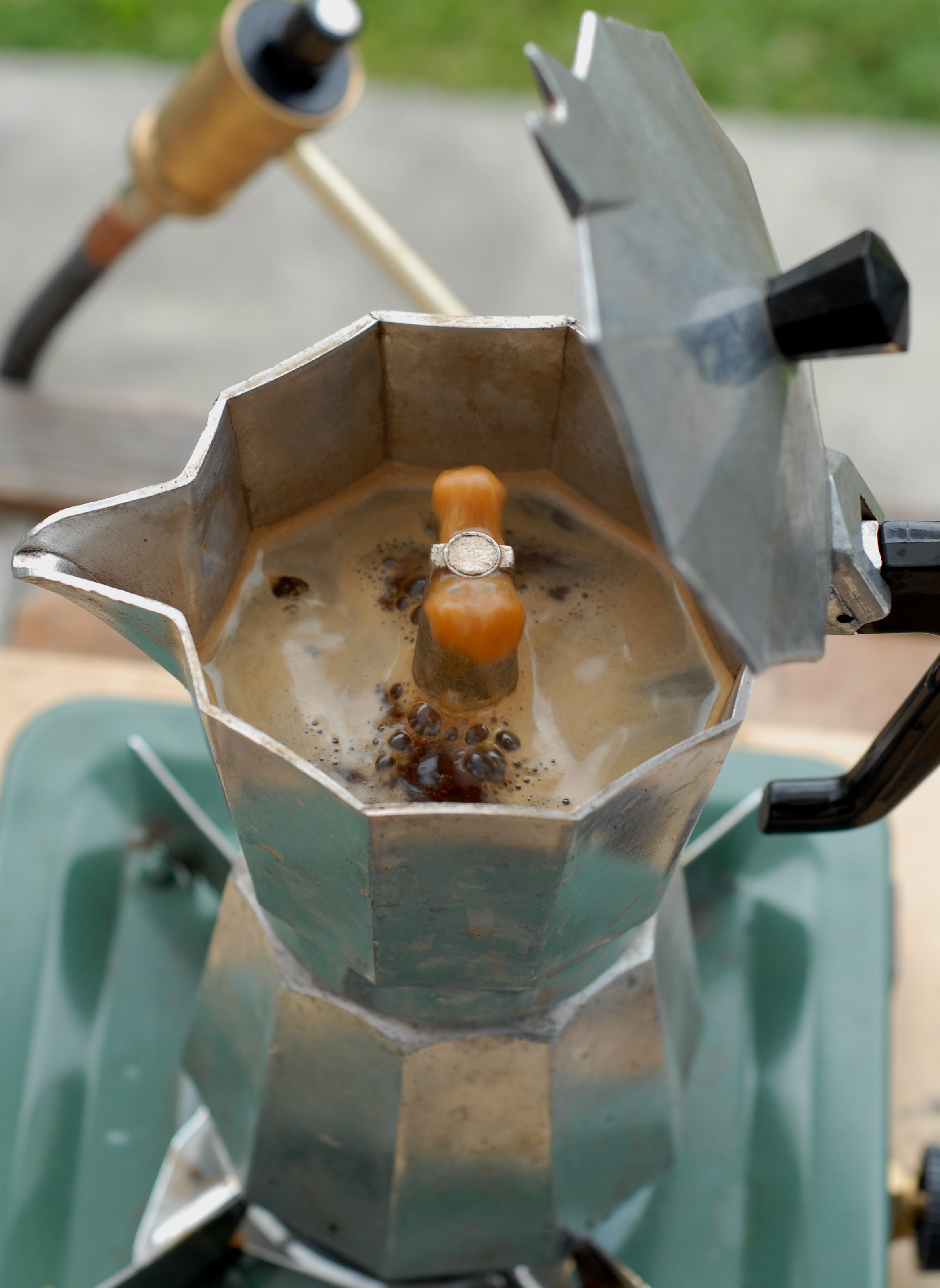 James Simon, Author's Photo, Copyright held by James Simon, no restrictions on use except attribution.